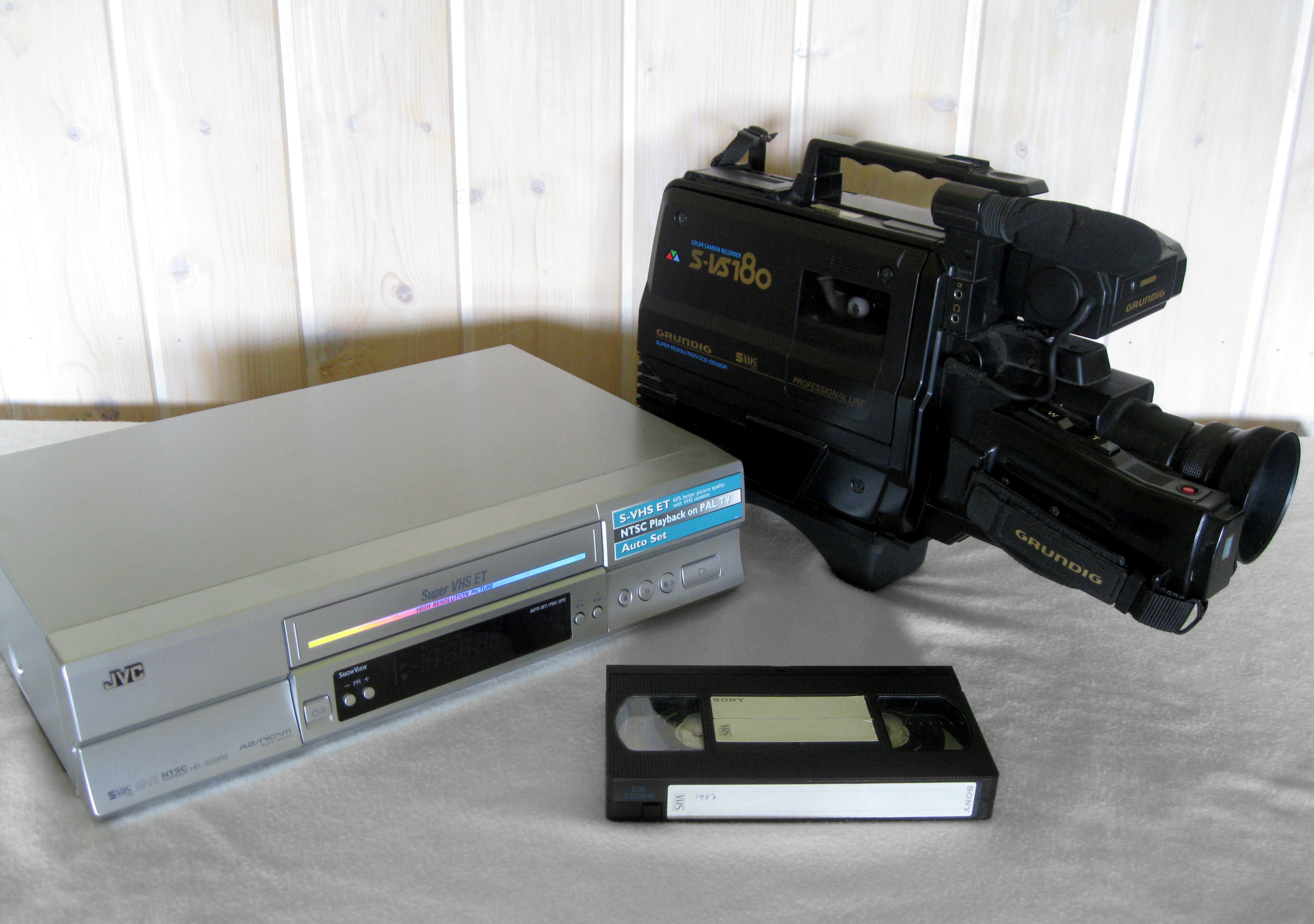 S-VHS recorder, camera and VHS cassette.